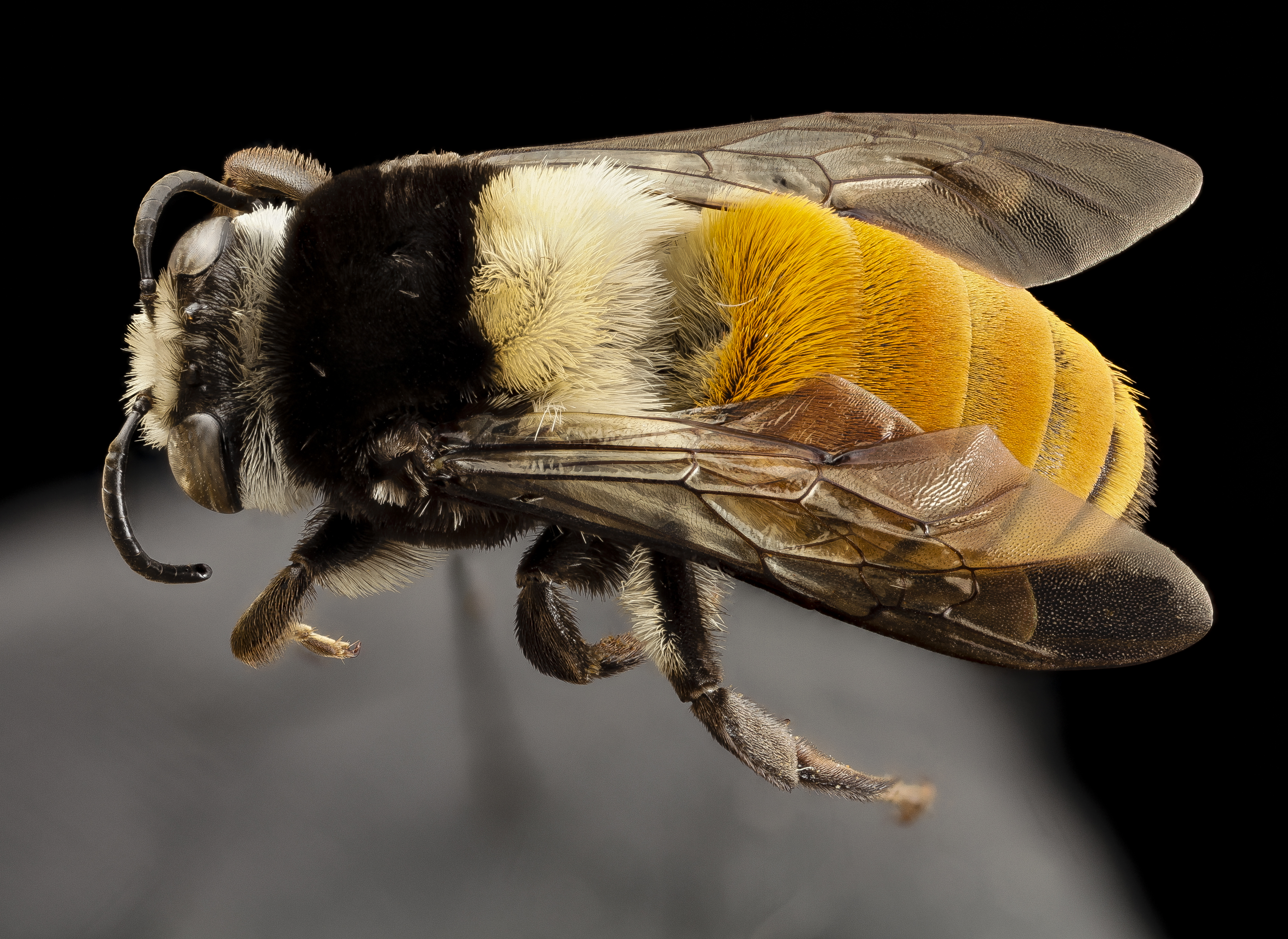 A Western Hemisphere group, with a good number of species. These are very fast fliers and, at least the North American species tend to be crepuscular and plant specialists, often associated with sandy/dune areas. 17:06, 17 November 2014 (UTC)17:06, 17 November 2014 (UTC) 0 17:06, 17 November 2014 (UTC)17:06, 17 November 2014 (UTC) All photographs are public domain, feel free to download and use as you wish. Photography Information: Canon Mark II 5D, Zerene Stacker, Stackshot Sled, 65mm Canon MP-E 1-5X macro lens, Twin Macro Flash in Styrofoam Cooler, F5.0, ISO 100, Shutter Speed 200 Further in Summer than the Birds Pathetic from the Grass A minor Nation celebrates Its unobtrusive Mass. No Ordinance be seen So gradual the Grace A pensive Custom it becomes Enlarging Loneliness. Antiquest felt at Noon When August burning low Arise this spectral Canticle Repose to typify Remit as yet no Grace No Furrow on the Glow Yet a Druidic Difference Enhances Nature now -- Emily Dickinson Want some Useful Links to the Techniques We Use? Well now here you go Citizen: Basic USGSBIML set up: USGSBIML Photoshopping Technique: Note that we now have added using the burn tool at 50% opacity set to shadows to clean up the halos that bleed into the black background from "hot" color sections of the picture. PDF of Basic USGSBIML Photography Set Up: ftp://ftpext.usgs.gov/pub/er/md/laurel/Droege/How%20to%20Take%20MacroPhotographs%20of%20Insects%20BIML%20Lab2.pdf Google Hangout Demonstration of Techniques: or Excellent Technical Form on Stacking: Contact information: Sam Droege 301 497 5840